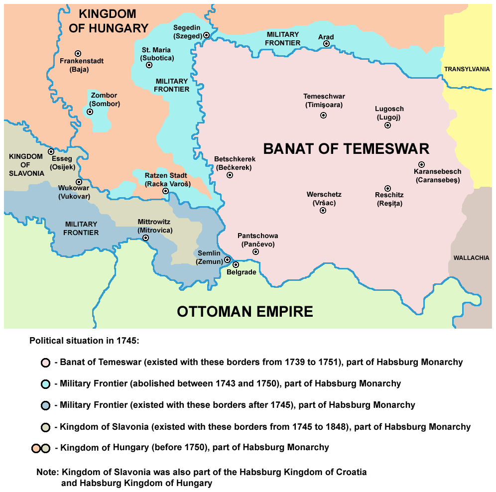 Map of the Banat of Temeswar, Kingdom of Slavonia and Military Frontier in 1745.